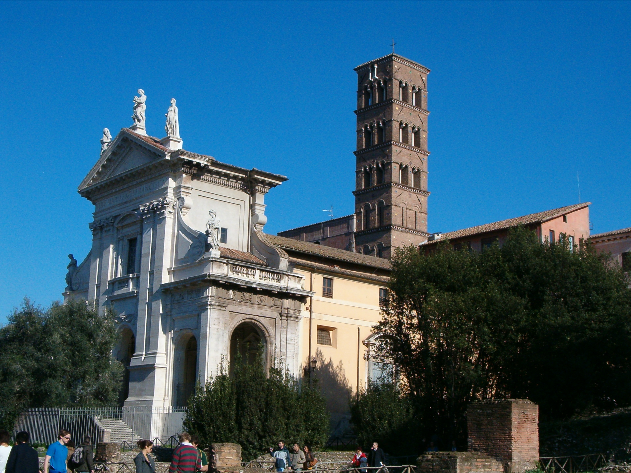 Church of Santa Francesca Romana near Forum Romanum, Rome.